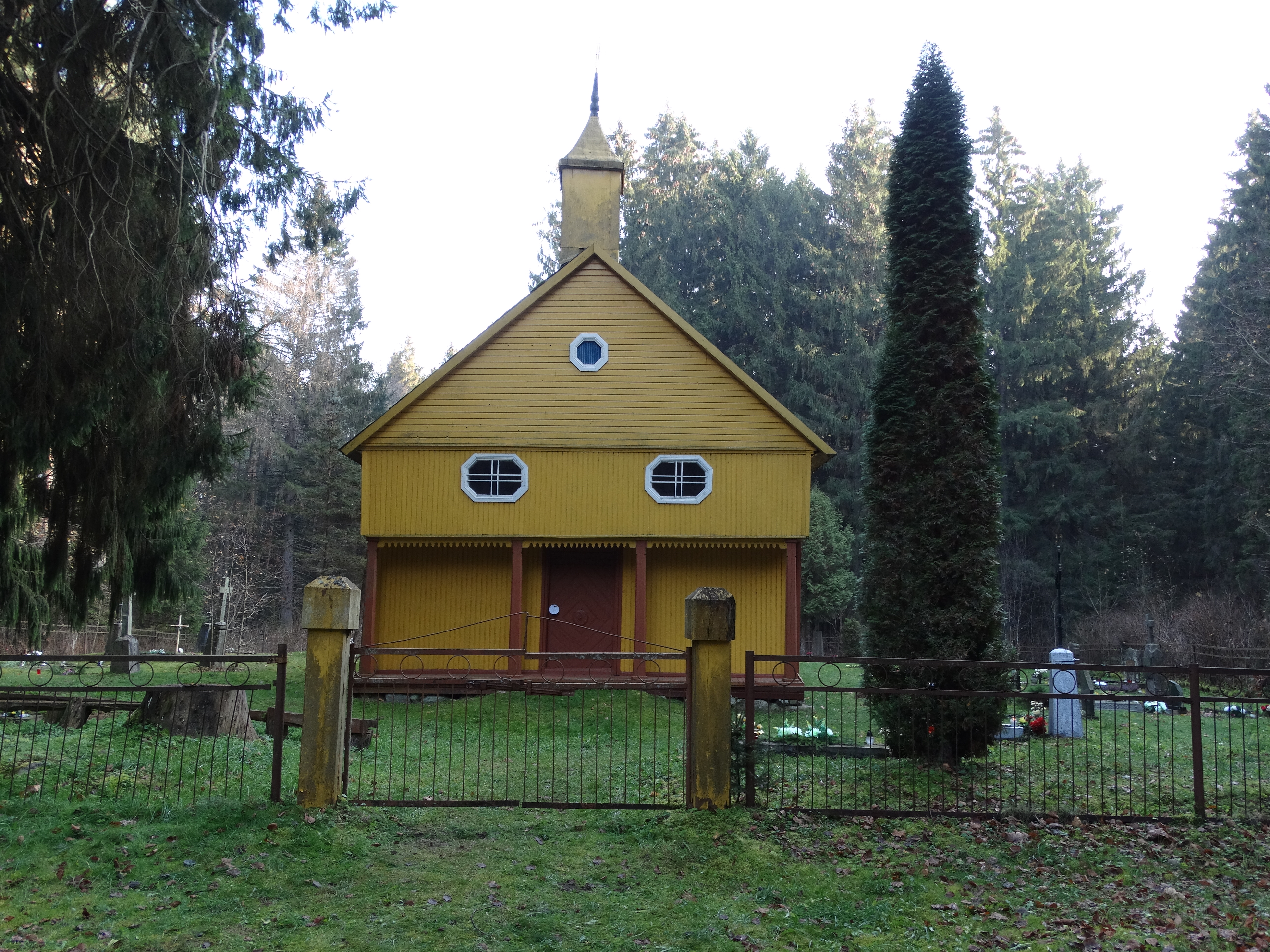 Chapel in Porijai, Pasvalys district, Lithuania